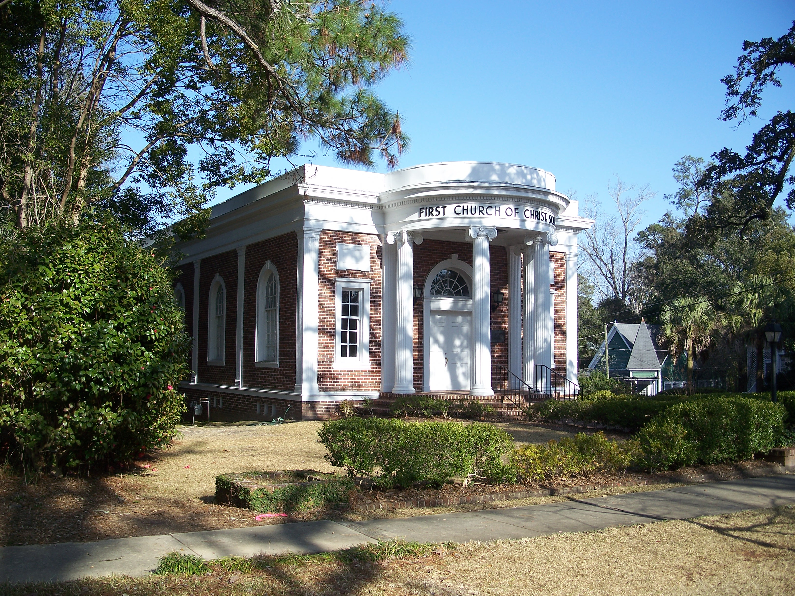 Thomasville, Georgia: Dawson Street Residential Historic District: First Church of Christ Scientist, on N. Dawson St. at E. Washington.